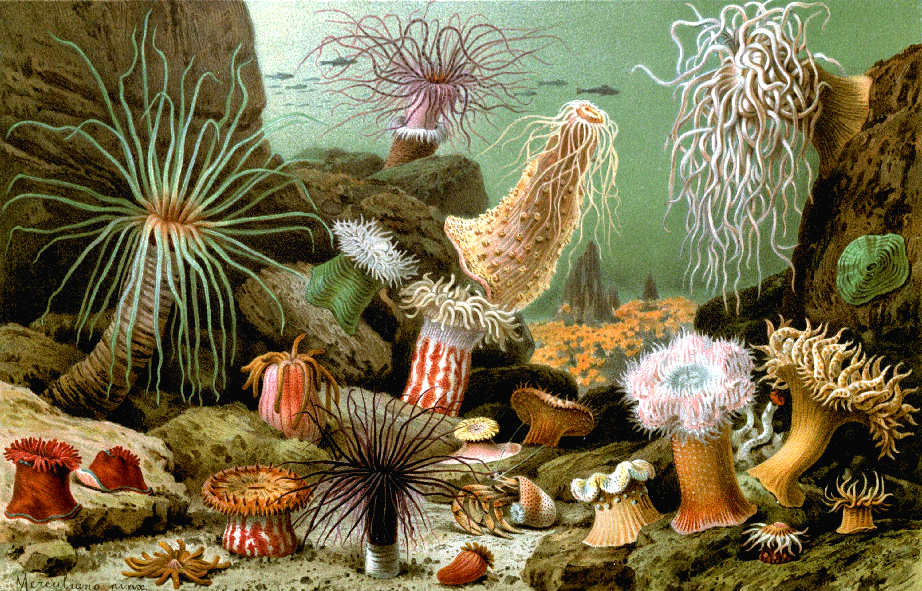 Various examples of sea anemones (1893 print).